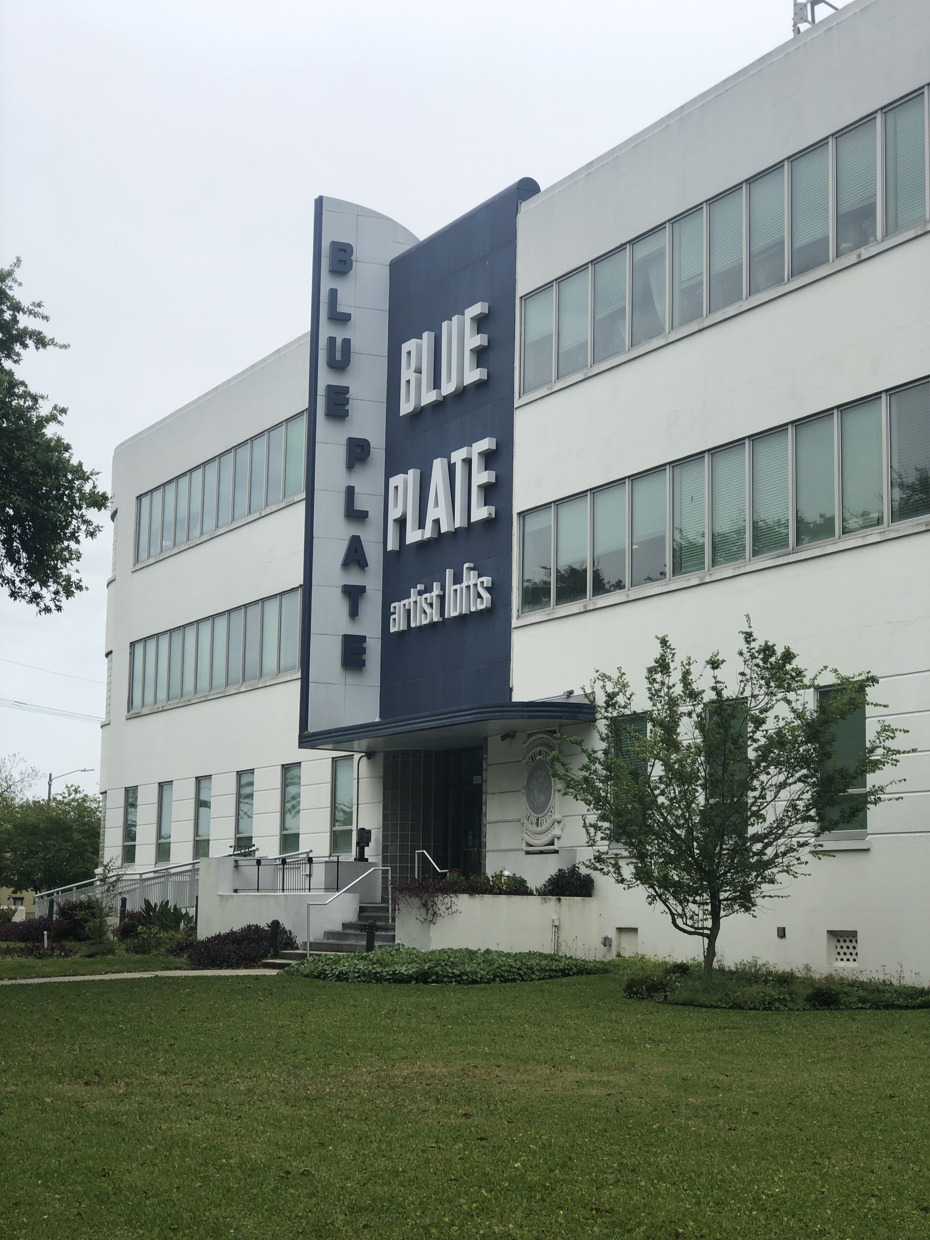 Photograph for Gert Town Wikipedia Article